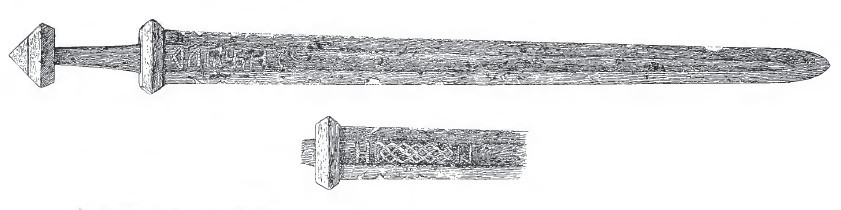 Viking sword found in a barrow in Sæbø, Hoprekstad, Norway in 1825. One side has a runic inscription that reads right-to-left "Oh Þurmuþ" (Thurmuth owns me).